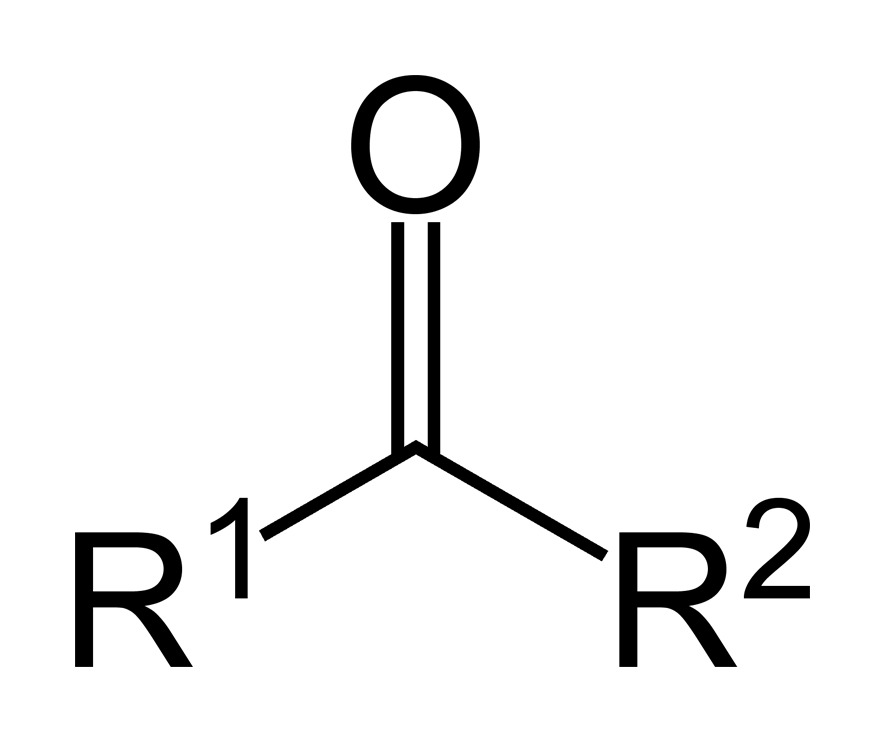 Description: Skeletal formula of a general ketone (R1C(=O)R2). Author, date of creation: self made by Ben Mills at 14:14, 8 March 2006 (UTC). Source: user-created image Comments: high-resolution black and white PNG; ChemDraw / Photoshop.